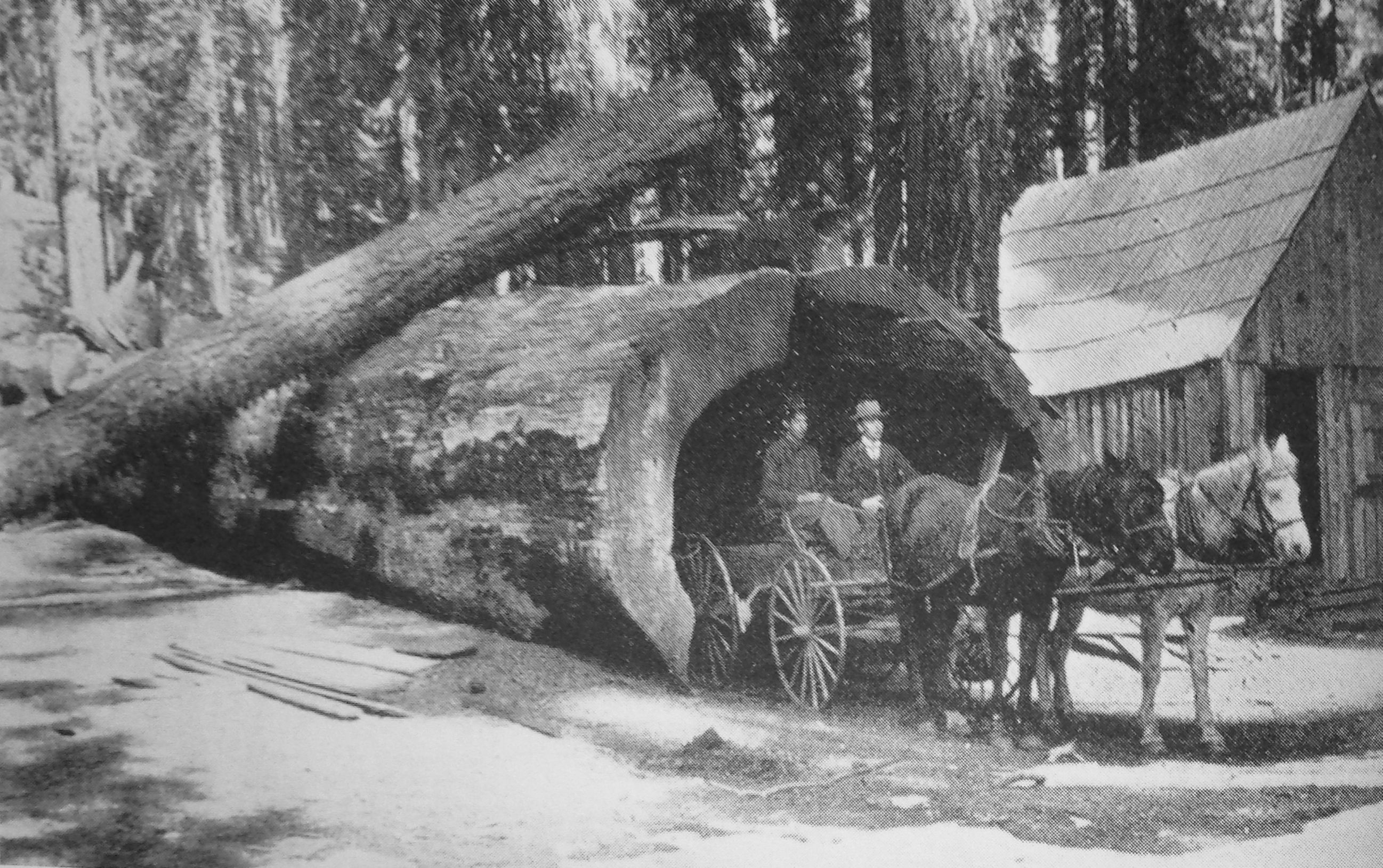 The Hollow Log at Balch Park about 1900 when the area was the Summer Home Resort